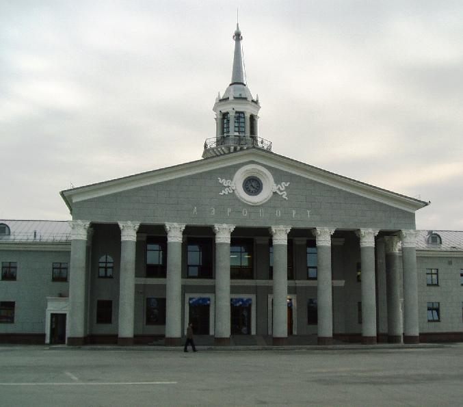 Historical building of Koltsovo International Airport near Yekaterinburg, Russia Picture taken in summer 2006